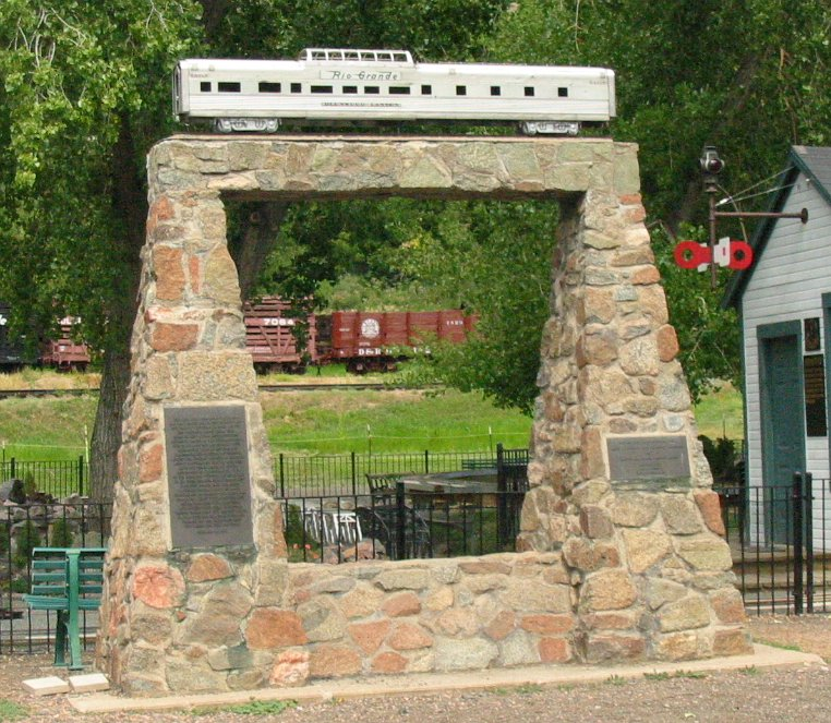 The monument erected to commemorate construction of the first dome car. The monument originally stood in Glenwood Canyon, Colorado; it is seen here in its current location at the Colorado Railroad Museum in Golden.